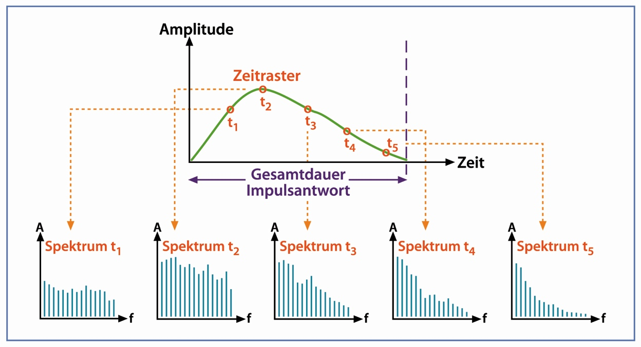 The Graphic was made for the Article about Convolution (Audio Engineering).